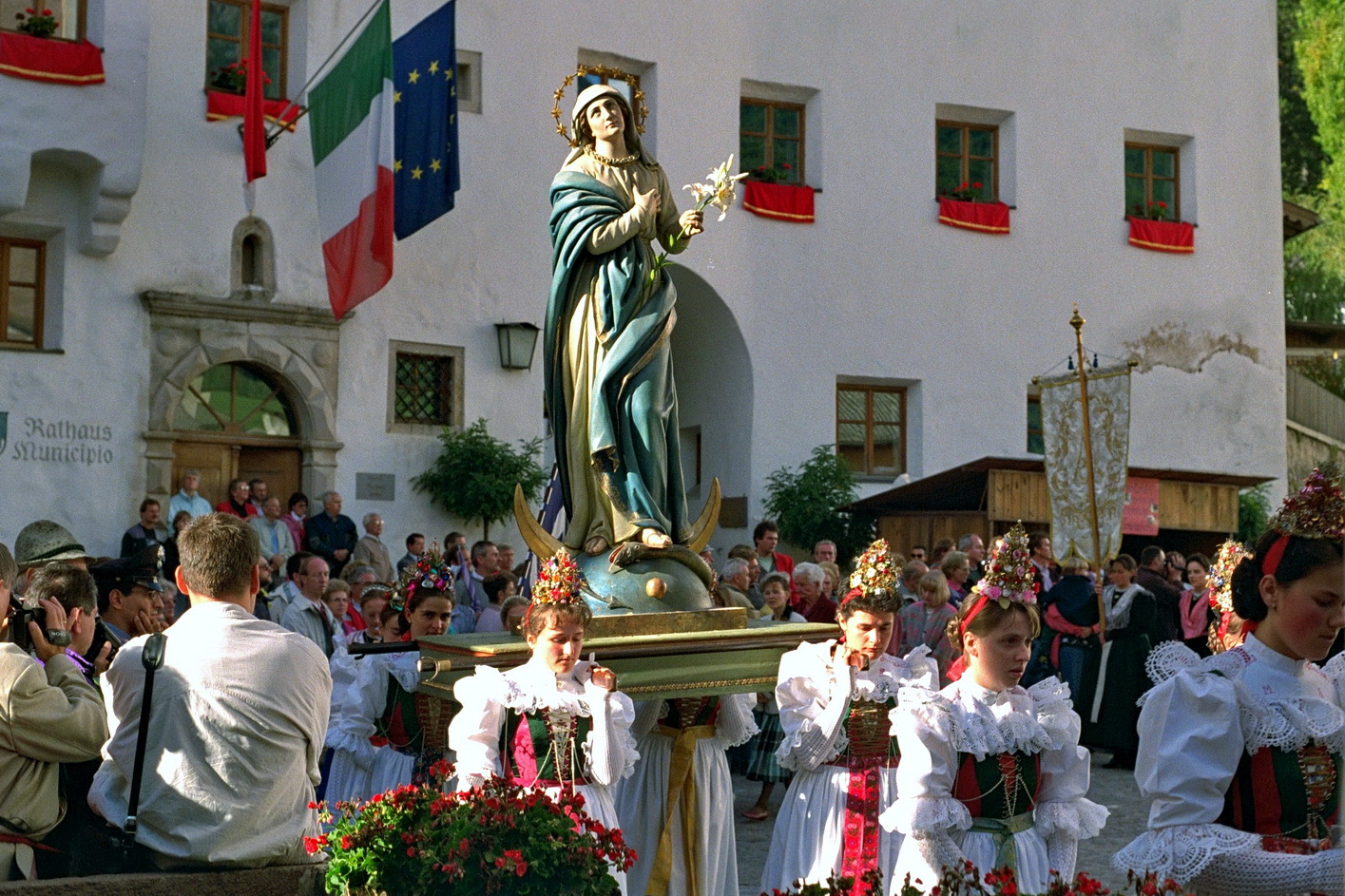 Erntedank in Kastelruth